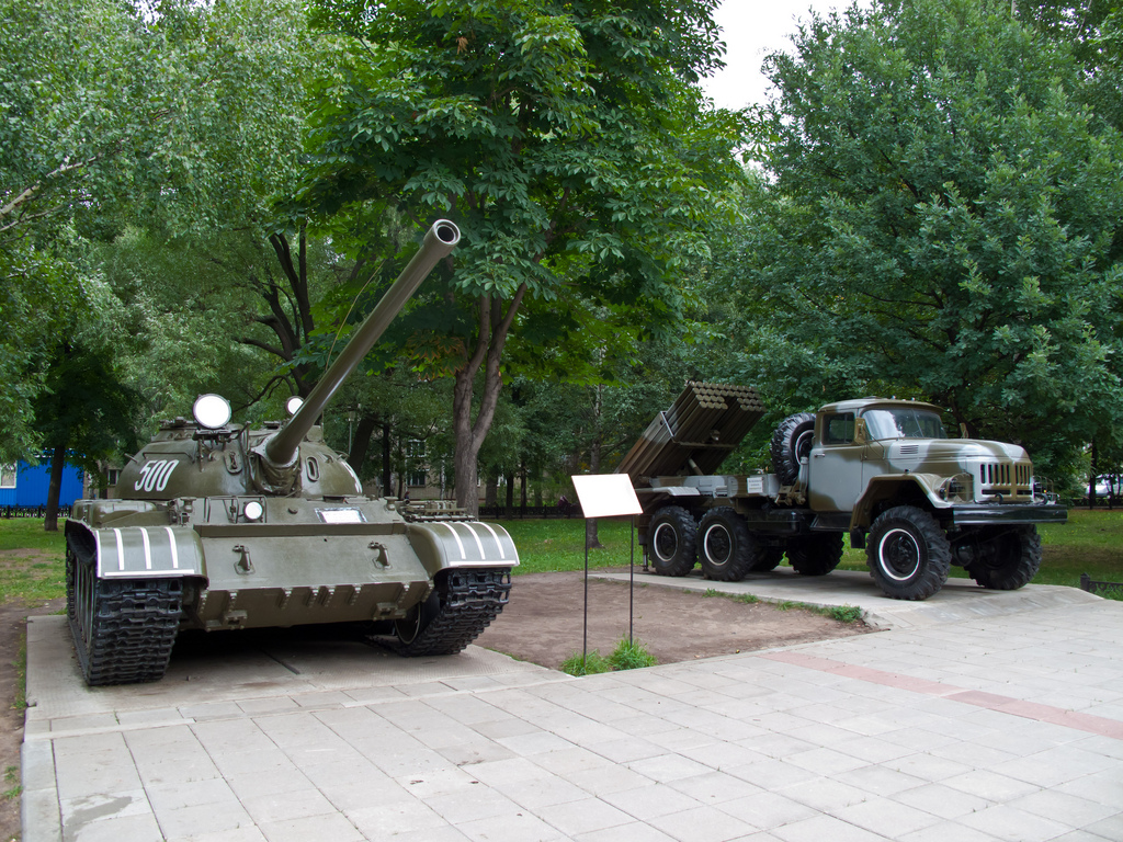 Tank in Museum of Military Glory in Yaroslavl